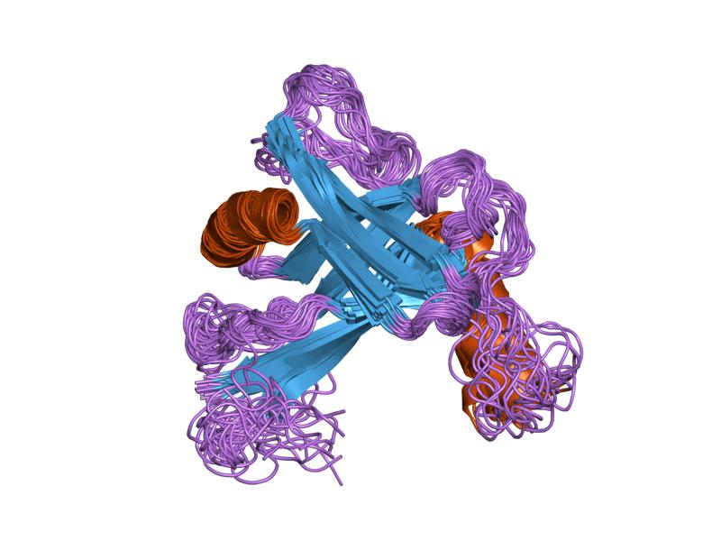 Cartoon representation of the molecular structure of protein registered with 1jyt code.